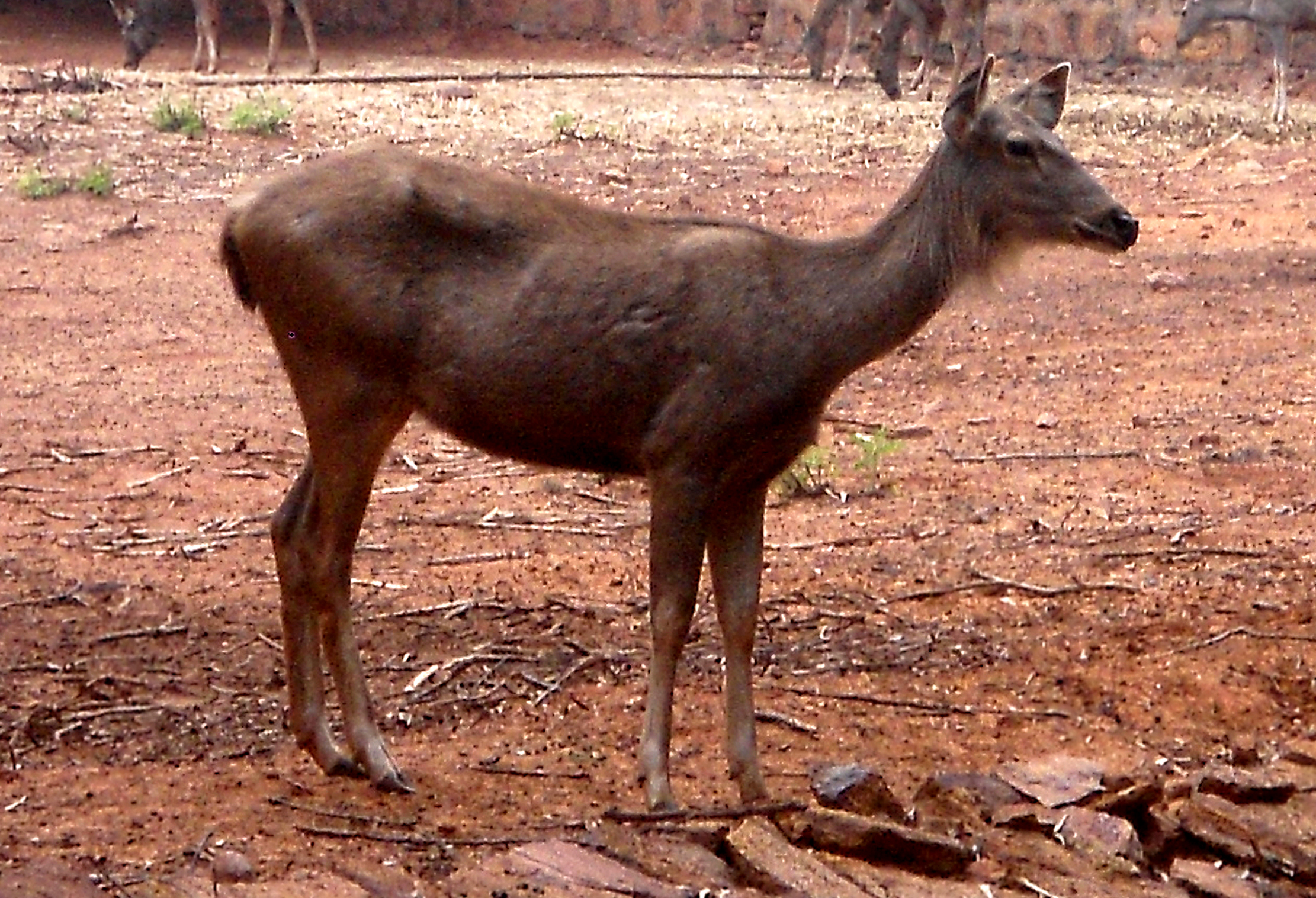 Cervus unicolor (Rusa unicolor) (Sambar deer) at Indira Gandhi Zoological Park in Visakhapatnam